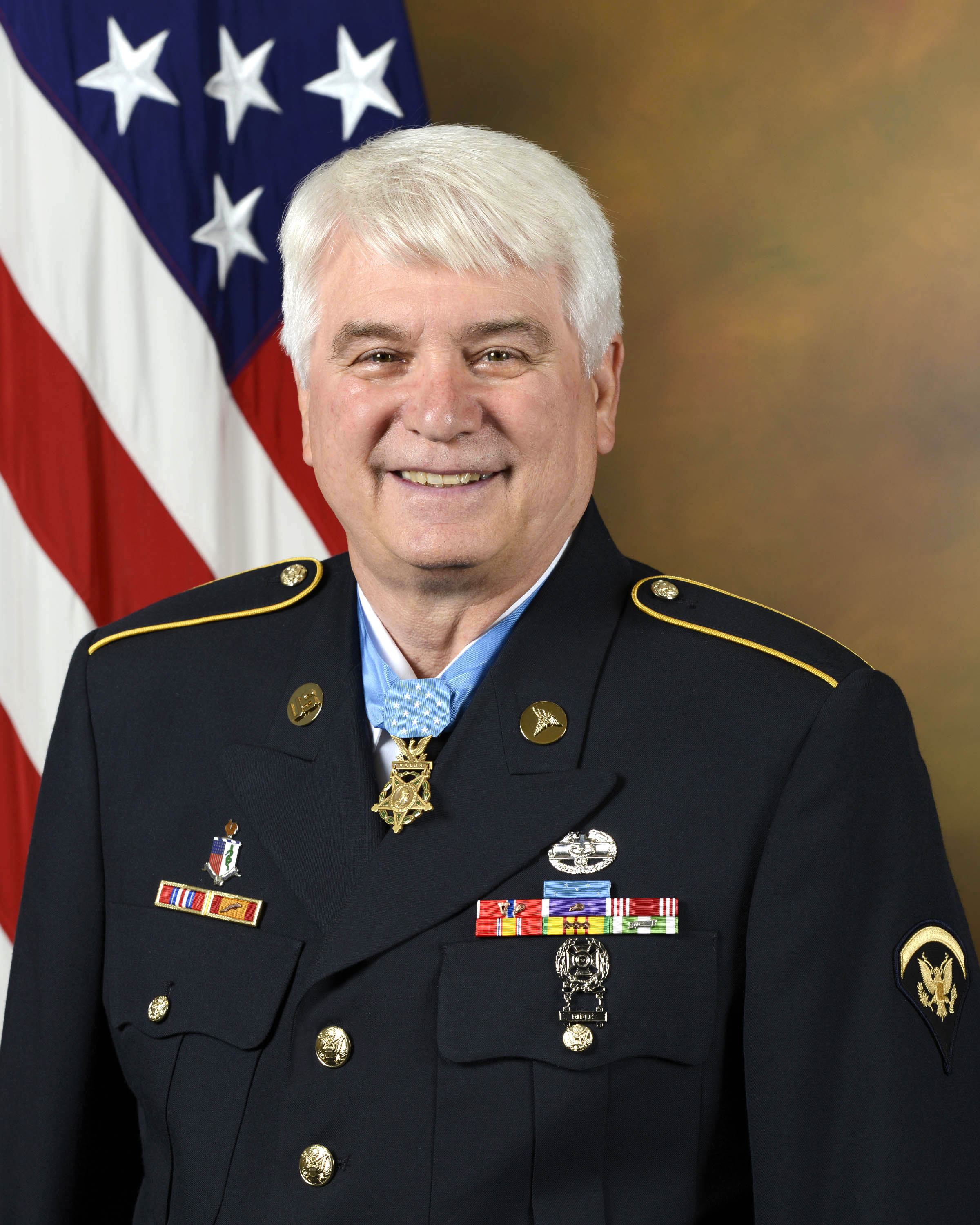 James C. McCloughan, the recipient of the Medal of Honor, poses for a portrait with the medal in the Army portrait studio at the Pentagon in Arlington, Va., Aug. 1, 2017. (U.S. Army photo by Monica King)